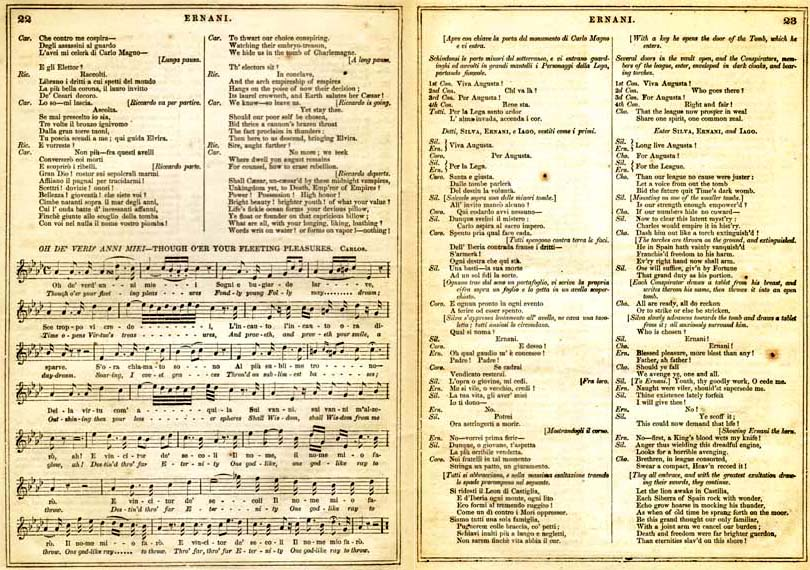 Description: Pages 22 and 23 from a libretto for Ernani by Giuseppe Verdi (1813 – 1901) Date and publisher of this edition: Oliver Ditson & Co. 1859 Source: Scanned by the uploader